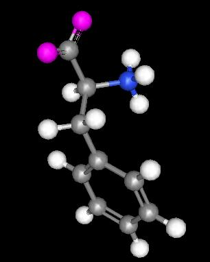 D-Phe - Ball and stick molecular graphics created by program Ghemical